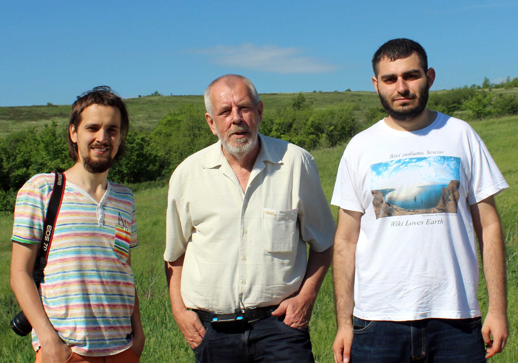 Mykola Lomako, Ukrainian architect, main architect of the city of Lysychansk (Luhansk oblast, Ukraine), scientific worker of the Lysychansk city country learning museum. During the Wikiexpedition to Zolotarivskyy Forestry Preserve (Popasna raion, Luhansk oblast, Ukraine).